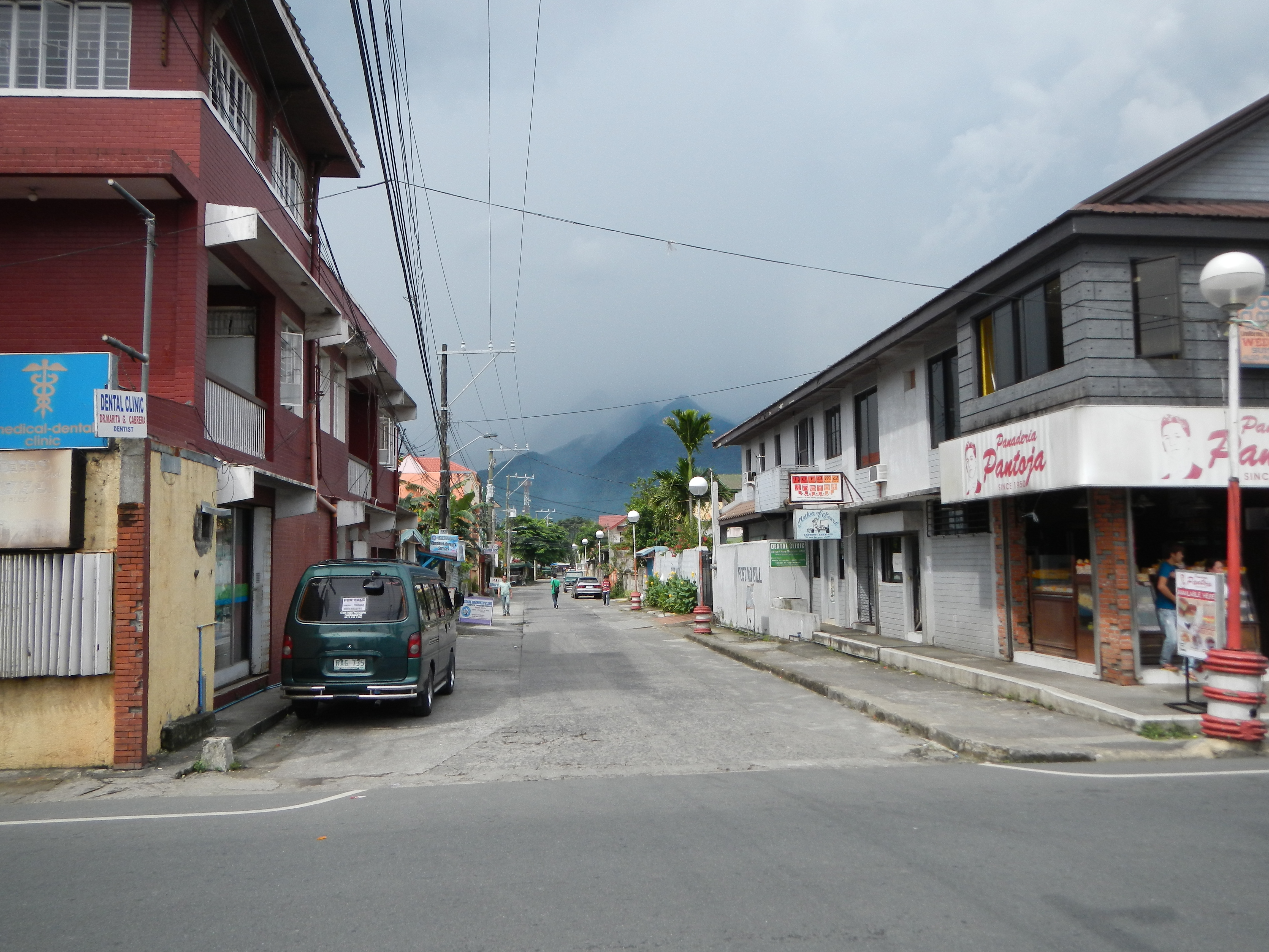 Gen Luna St, Santo Tomas, Batangas[1] [2] [3] [4] [5] [6] -- it belongs to the Roman Catholic Diocese of Imus[7] Vicariate VI – The Most Holy Rosary [8] - Thomas Aquinas[9] --- Santo Tomas, Batangas[10] Website Santo Tomas (also spelled as Sto. Tomas) is a first class municipality in the province of Batangas,[11] Philippines. According to the 2010 census, it has a population of 123,668 people. The town is a gateway to the province from Laguna hometown of Philippine Revolution and Philippine-American War hero Miguel Malvar.[12] The patron of Santo Tomas is Saint Thomas Aquinas,[13] patron of Catholic schools celebrates his feast day every 7 March.Election Results 2013 Santo Tomas mayoral bet Edna Sanchez accused of vote-buying [14] Coordinates: 14°3'44"N 121°10'24"E Geographical location: Batangas, Region 4, Philippines, Asia Geographical coordinates: 14° 6' 33" North, 121° 8' 31" East This place is situated in Batangas, Region 4, Philippines, its geographical coordinates are 14° 6' 33" North, 121° 8' 31" East and its original name (with diacritics) is Santo Tomas. [15]